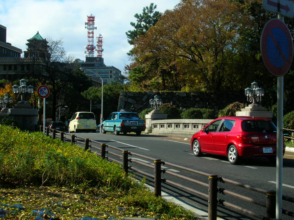 The Shimizu Bridge (Shimizu-bashi) on the Aichi Prefectural Road Route 215, in Nagoya City, Japan